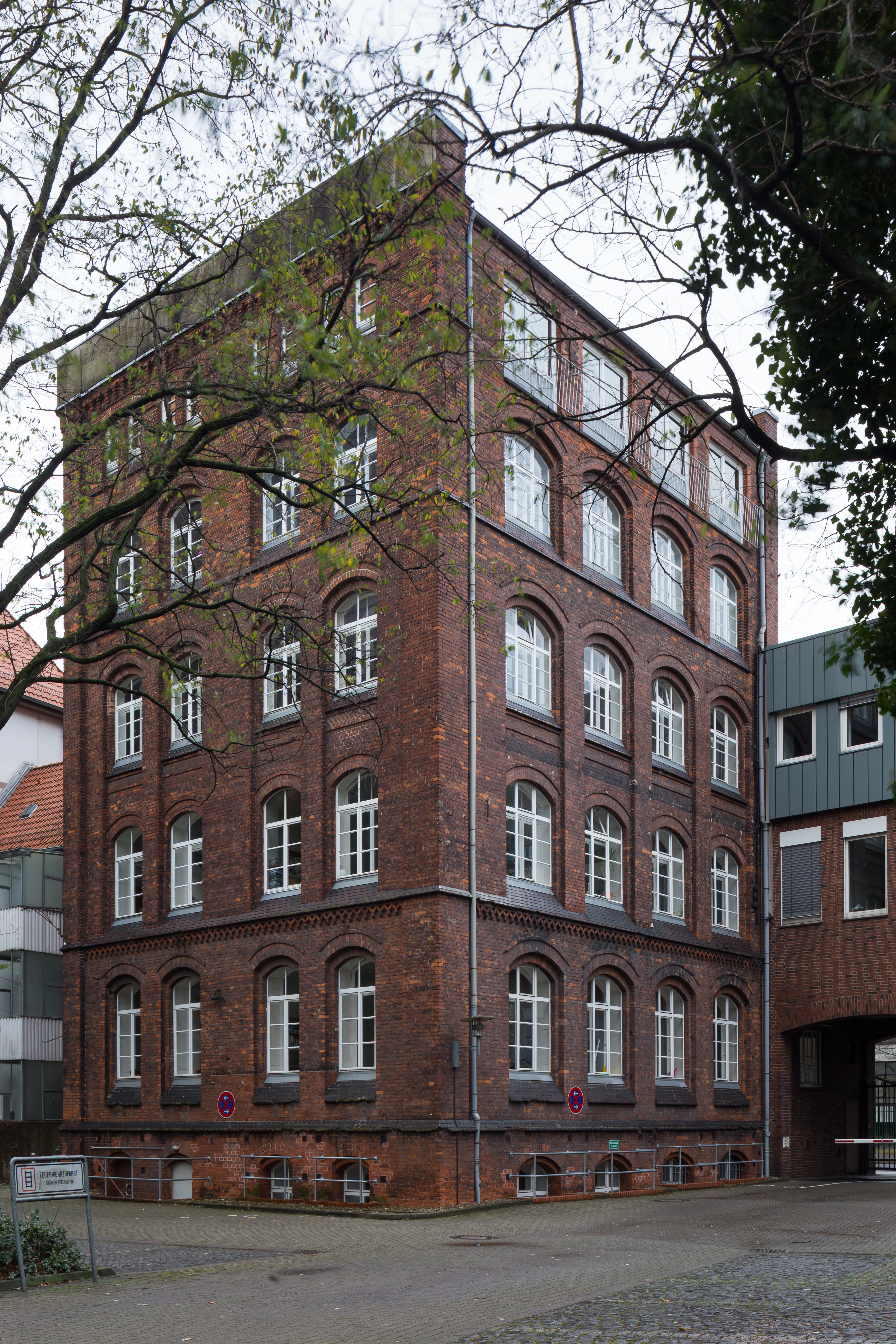 Former factory building of J. C. Koenig & Ebehardt account books maker - now used as office building for the IT services of the university, located at Schlosswender Strasse in Nordstadt quarter of Hannover, Germany.